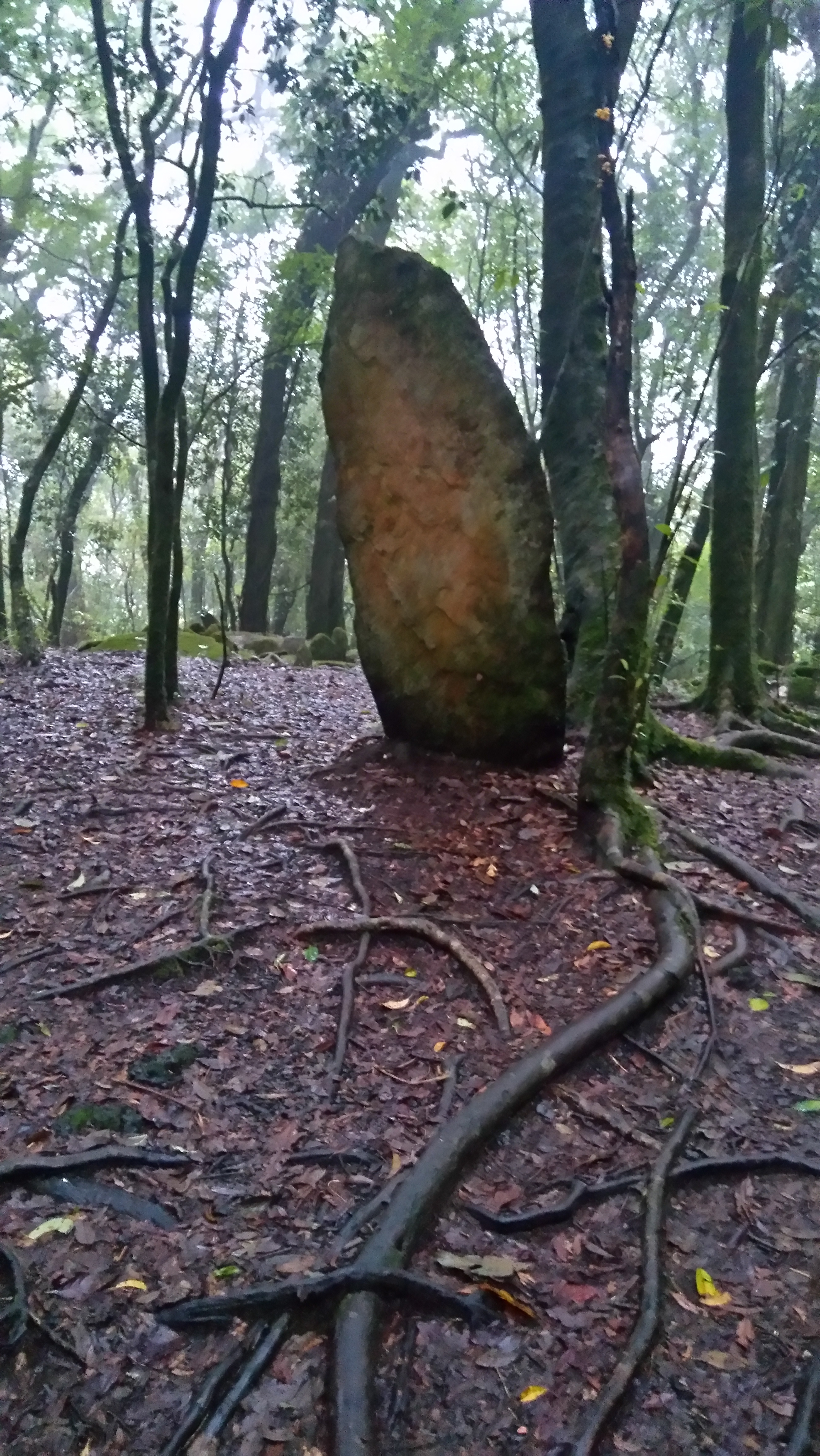 Mawphalang Sacred forests Symbolic stone used as a place for pre-occassion preparations.